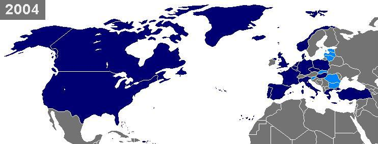 Map of the expansion of the intergovernmental military alliance NATO by Estonia, Latvia, Lithuania, Slovenia, Slovakia, Bulgaria, and Romania on March 29, 2004.